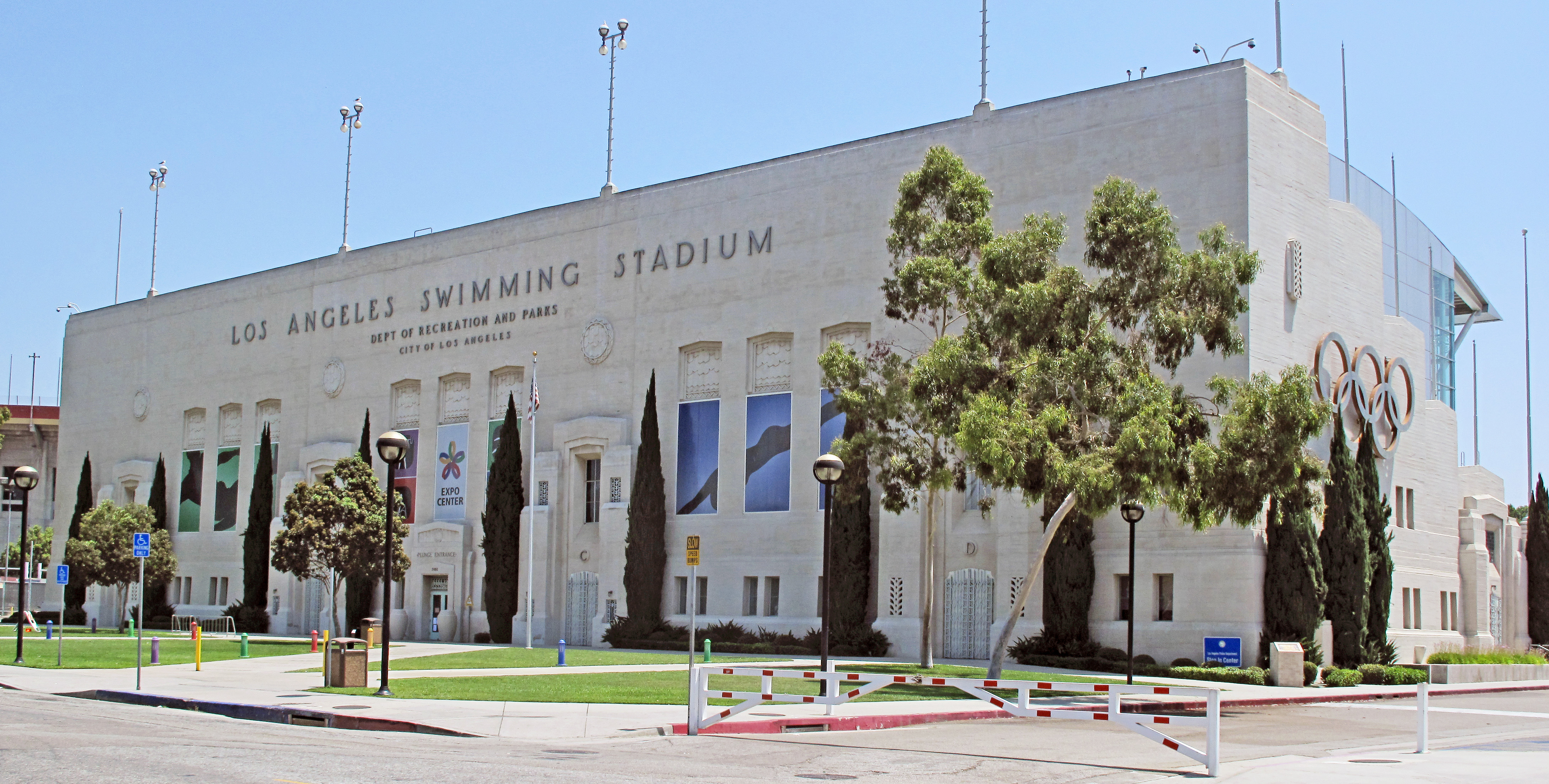 The LA84 Foundation/John C. Argue Swim Stadium, called originally the Los Angeles Swimming Stadium, built for the 1932 Olympics. Now operated by the Los Angele Department of Recreation and Parks. Approximately 3900 S. Menlo Avenue, Los Angeles, in Exposition Park.